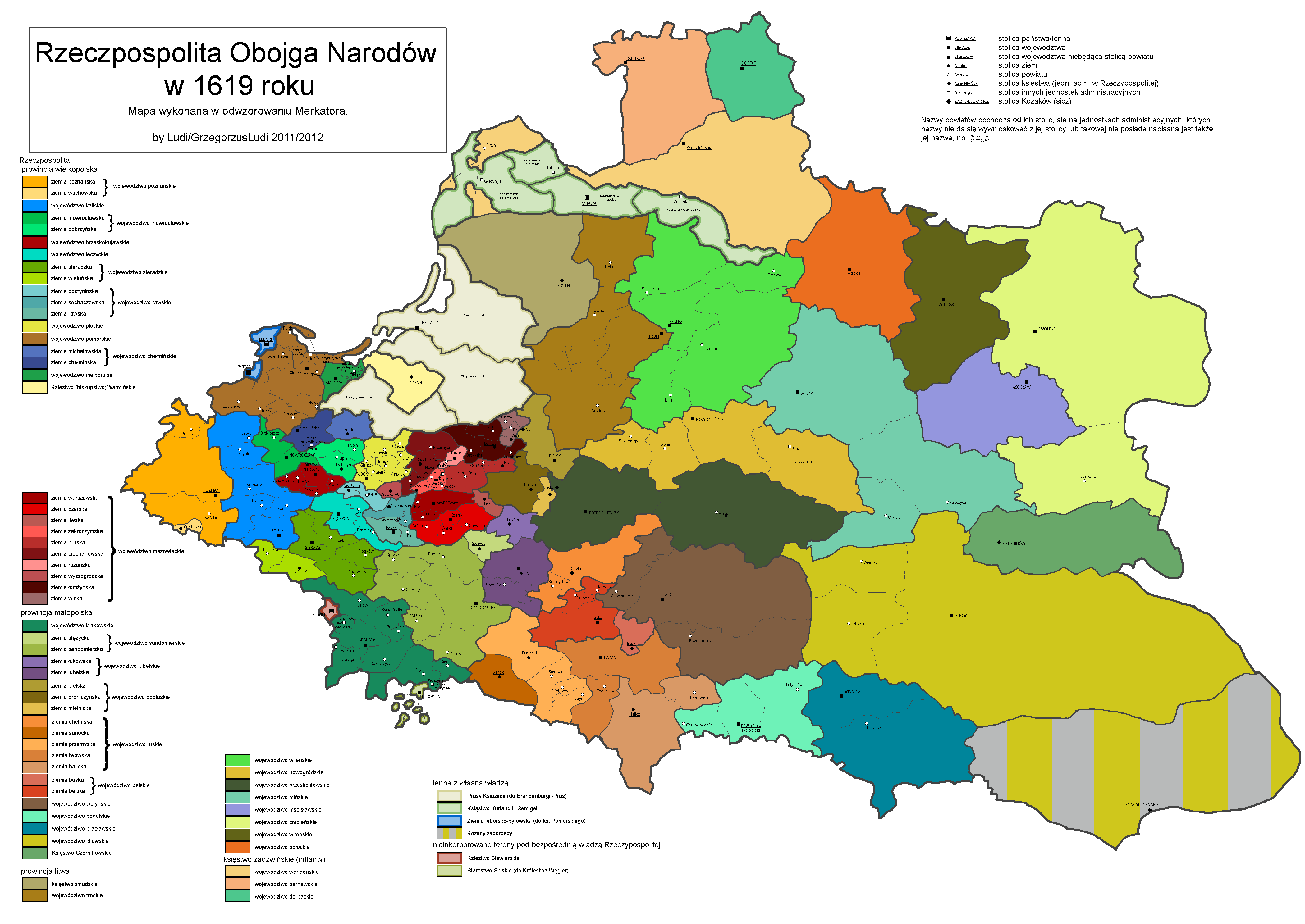 Map of Polish–Lithuanian Commonwealth in 1619. Country is divided into: voivodeships, lands and powiats.